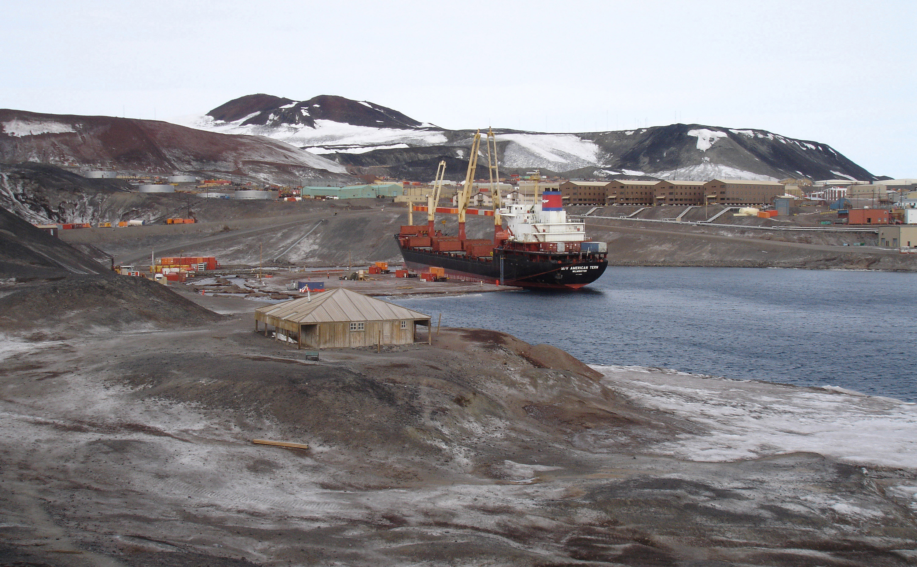 U.S. Navy Sailors assigned to Navy Cargo Handling Battalion (NCBH) 1 offload cargo from the Military Sealift Command chartered container ship MV American Tern (T-AK 4729) to an ice pier during Operation Deep Freeze, the annual operation to resupply the National Science Foundation's McMurdo Station on Ross Island, Antarctica, Feb. 7, 2007. NCBH 1 is the only active-duty component of the Naval Expeditionary Logistics Support Force, headquartered in Williamsburg, Va., and is a component of the U.S. Fleet Forces Command. DoD photo by Cmdr. Vincent Clifton, U.S. Navy. Released But Not Accessioned (Cleaned and/or Corrected)